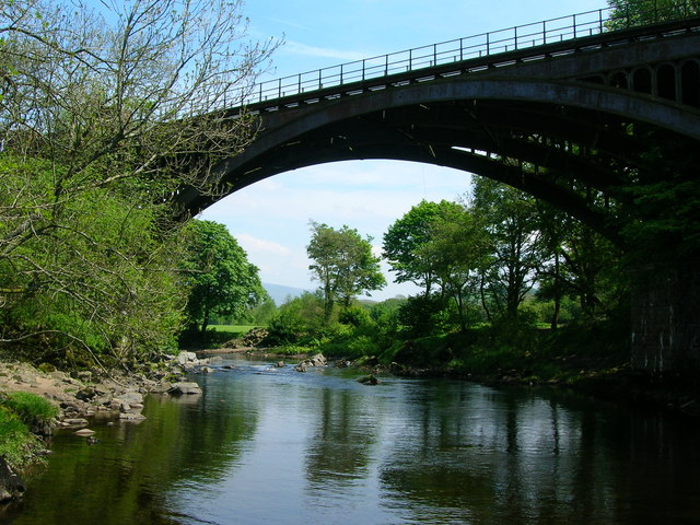 Disused railway bridge over the River Rawthey Disused by trains, that is. The bridge is now used to carry a gas pipeline over the river.